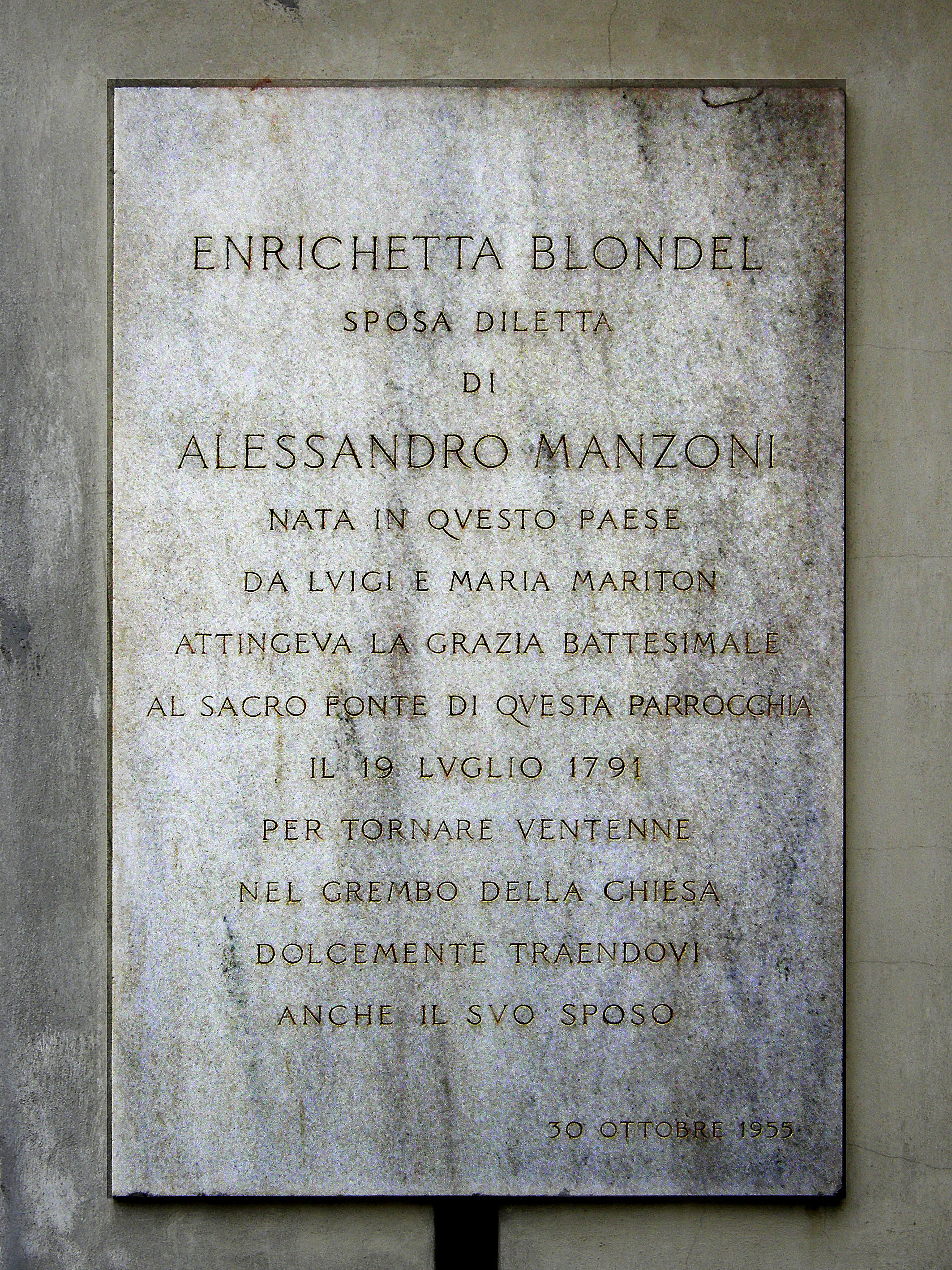 Tablet dedicated to Enrichetta Blondel, Alessandro Manzoni's wife. Parish Church in Casirate d'Adda BG - Italy.